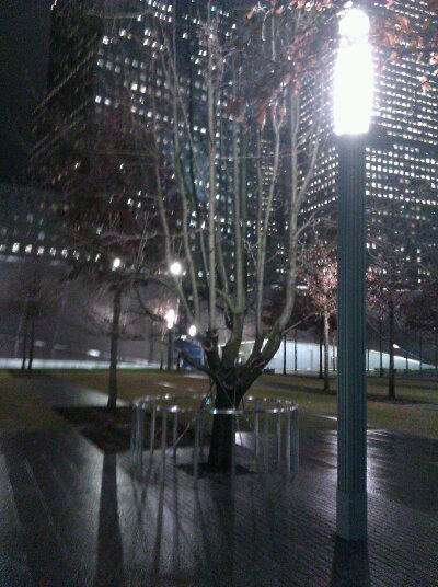 A night photo of the Survivor Tree at the National September 11 Memorial, taken in winter.